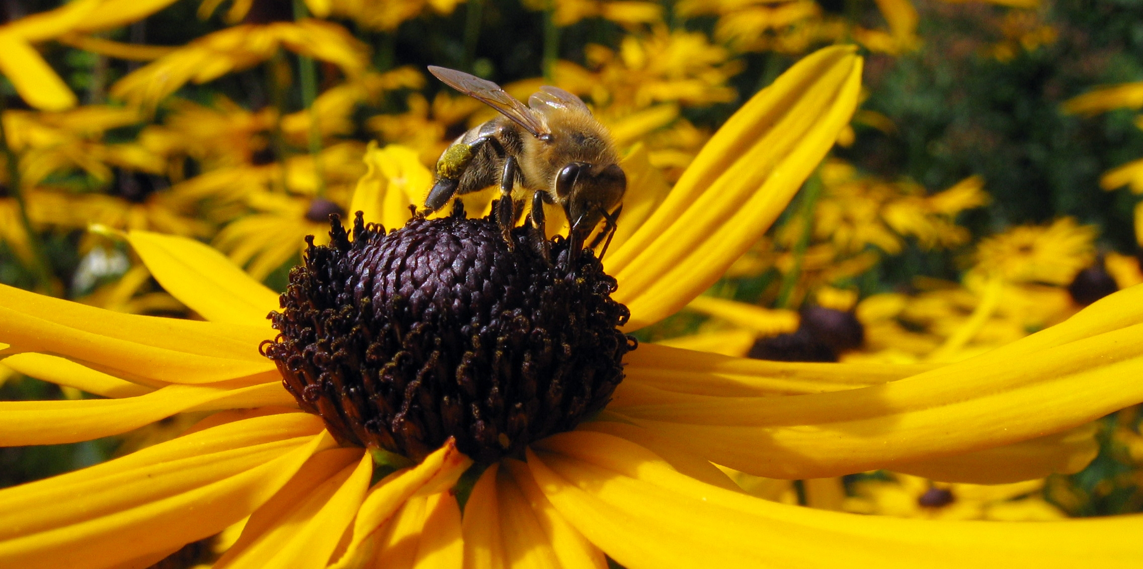 Bee (Apoidea) on flower (Rudbeckia spec.)